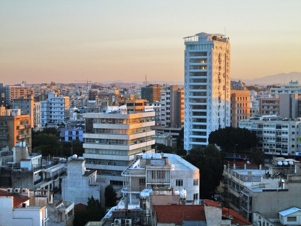 Nicosia panoramic view Cyprus